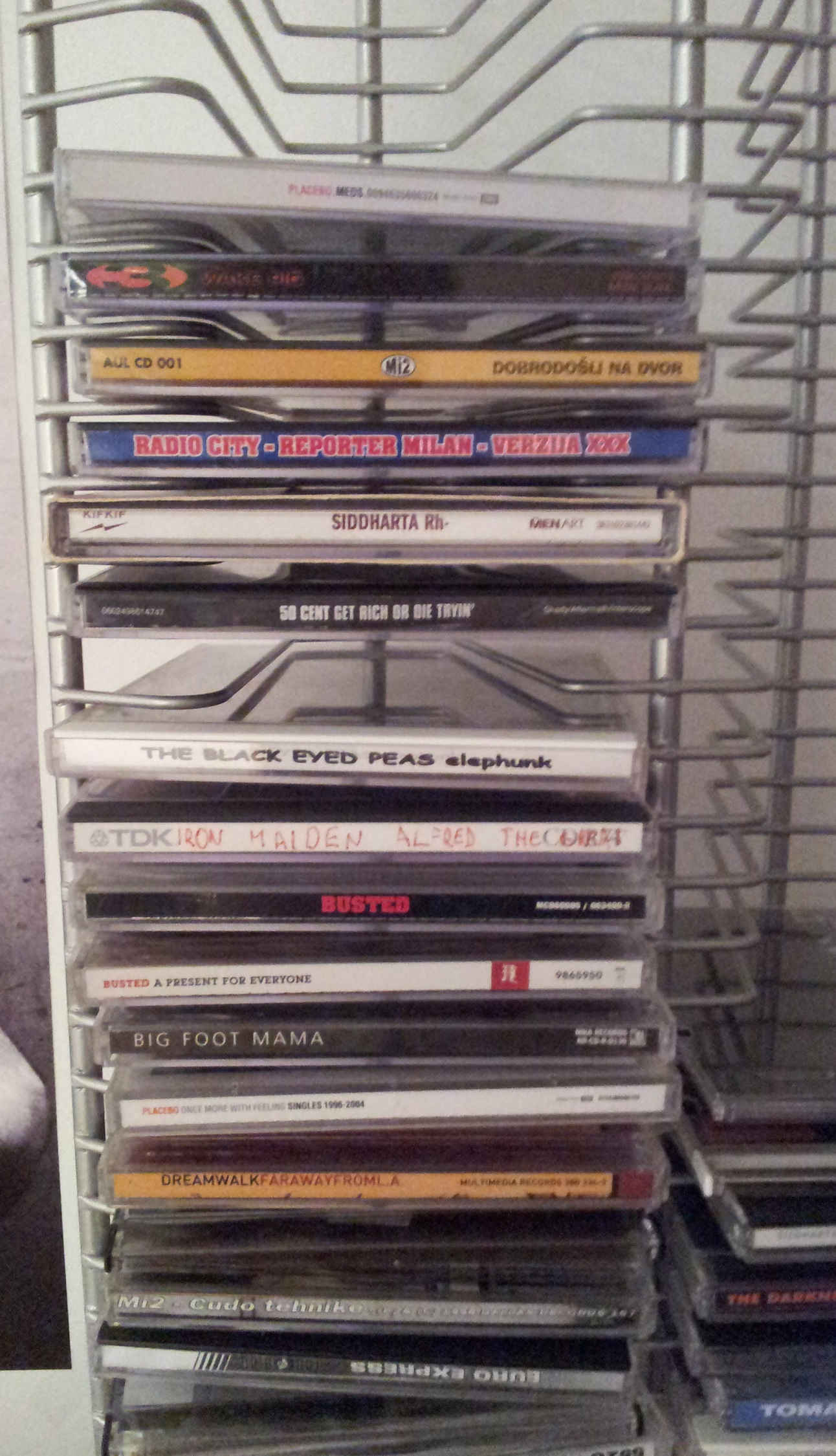 Private collection including Iron Maiden album Alfred the Great